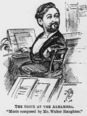 Caricature of Walter Slaughter scanned from Judy magazine, 28 October 1891, p. 209.